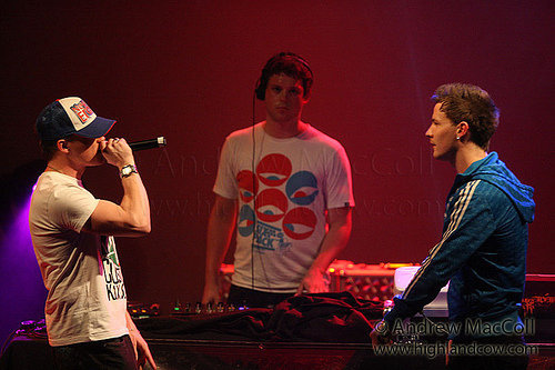 SHY & DRS performing Live at Rockness